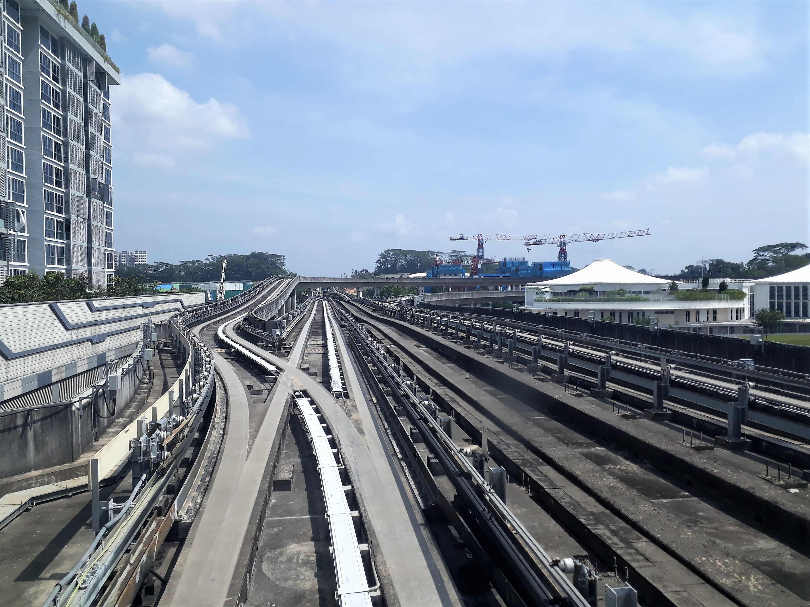 Tracks leading out of Punggol station